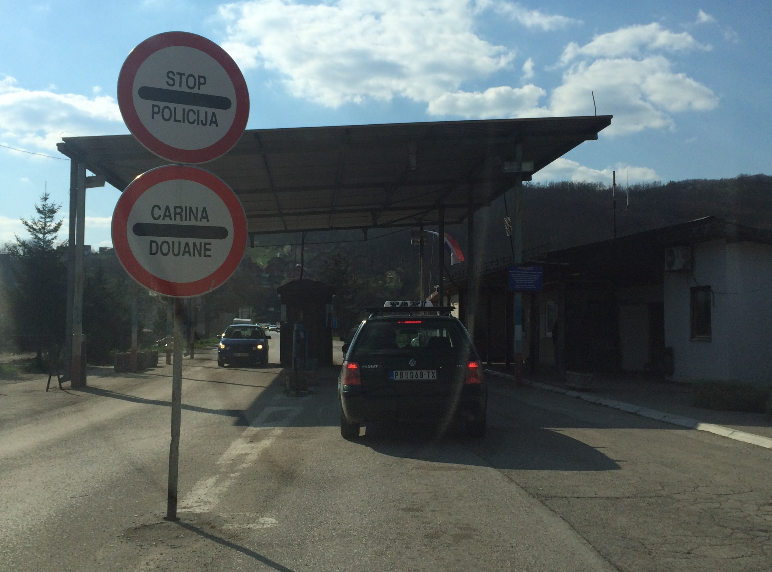 Image from the border crossing betwwwn Serbia and Bosnia-Hercegovina, by bridge over the Uvac river where it meets the Lim River. The settlement is named Racha, a part of Uvac settlement, Priboj municipality (Serbia).